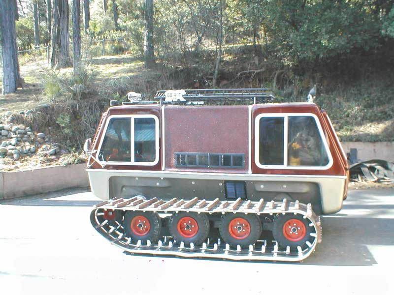 Kristi KT7, serial #004, shown after a one year long restoration before its snow trials. This photo is taken in California prior to transporting the KT7 to its home in Idaho.